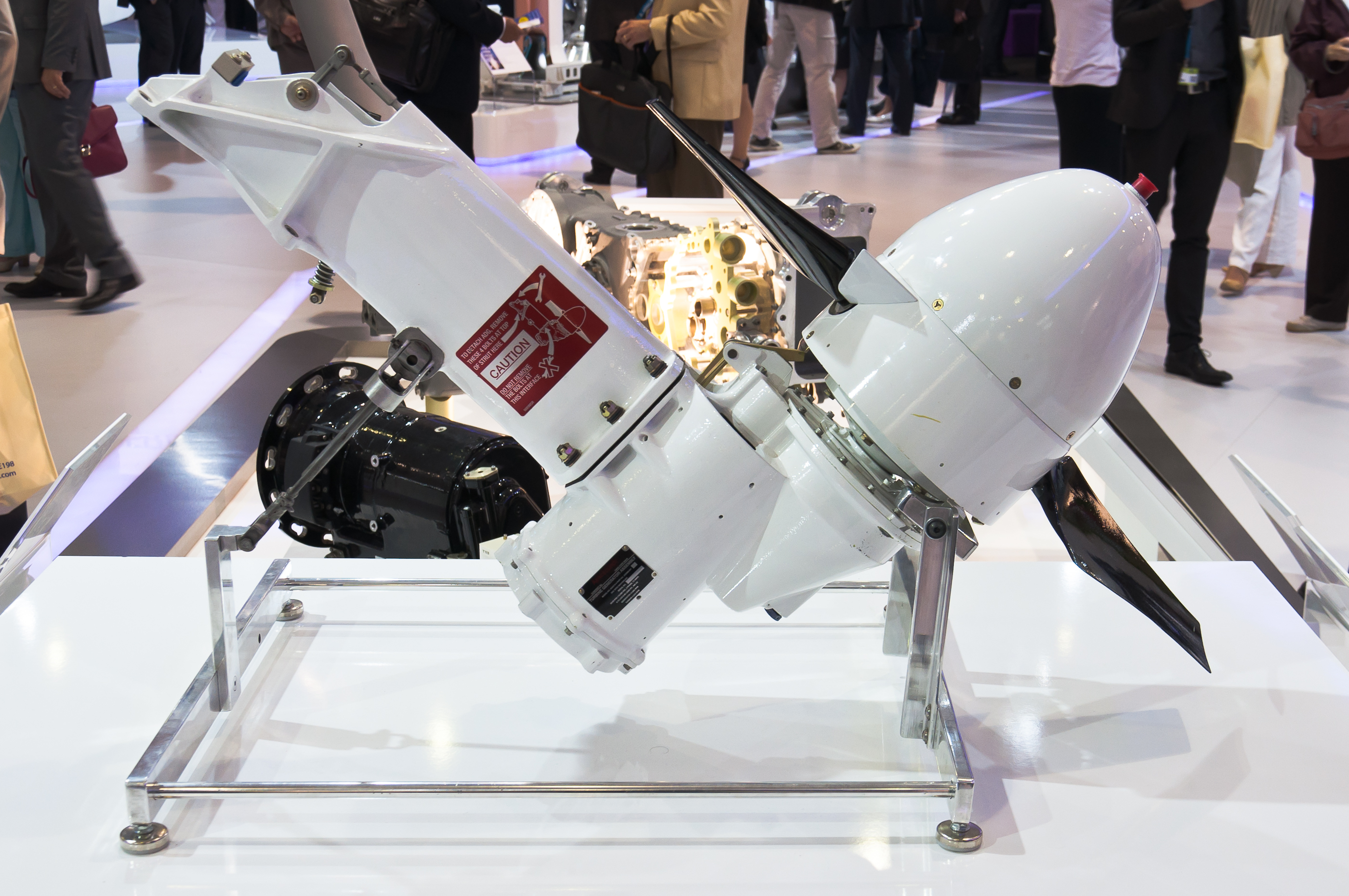 Safran/Hispano-Suiza backup electrical generation system (RAT) for the Ebmraer KC-390 aircraft.